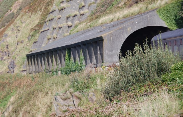 Avalanche tunnel at Gallt Ffynnon yr Hydd